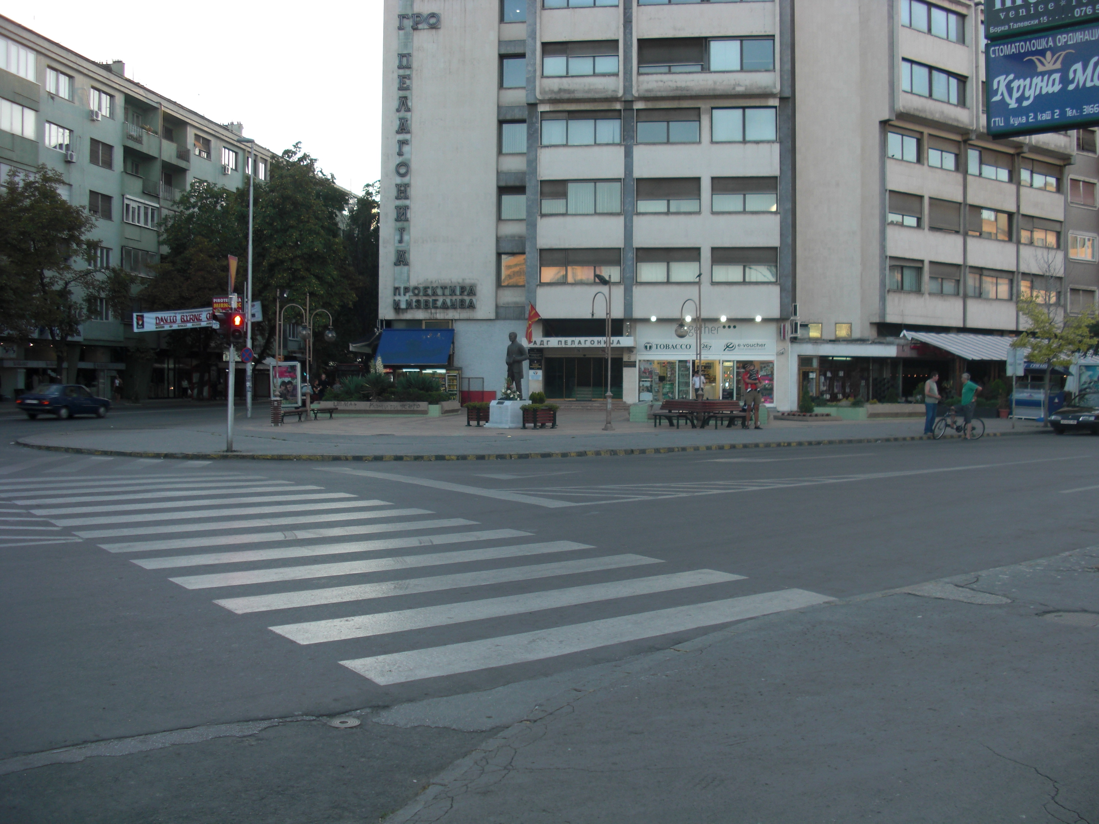 Pella square in skopje, macedonia